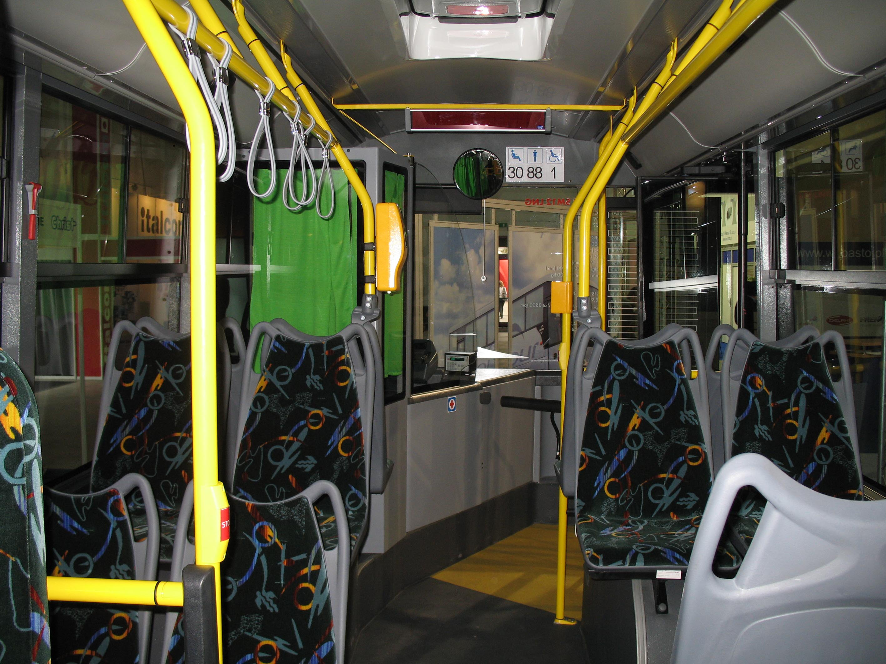 Solbus Solcity 12 LNG city bus interior in Kielce, Poland. Built 2008. Transexpo 2008.